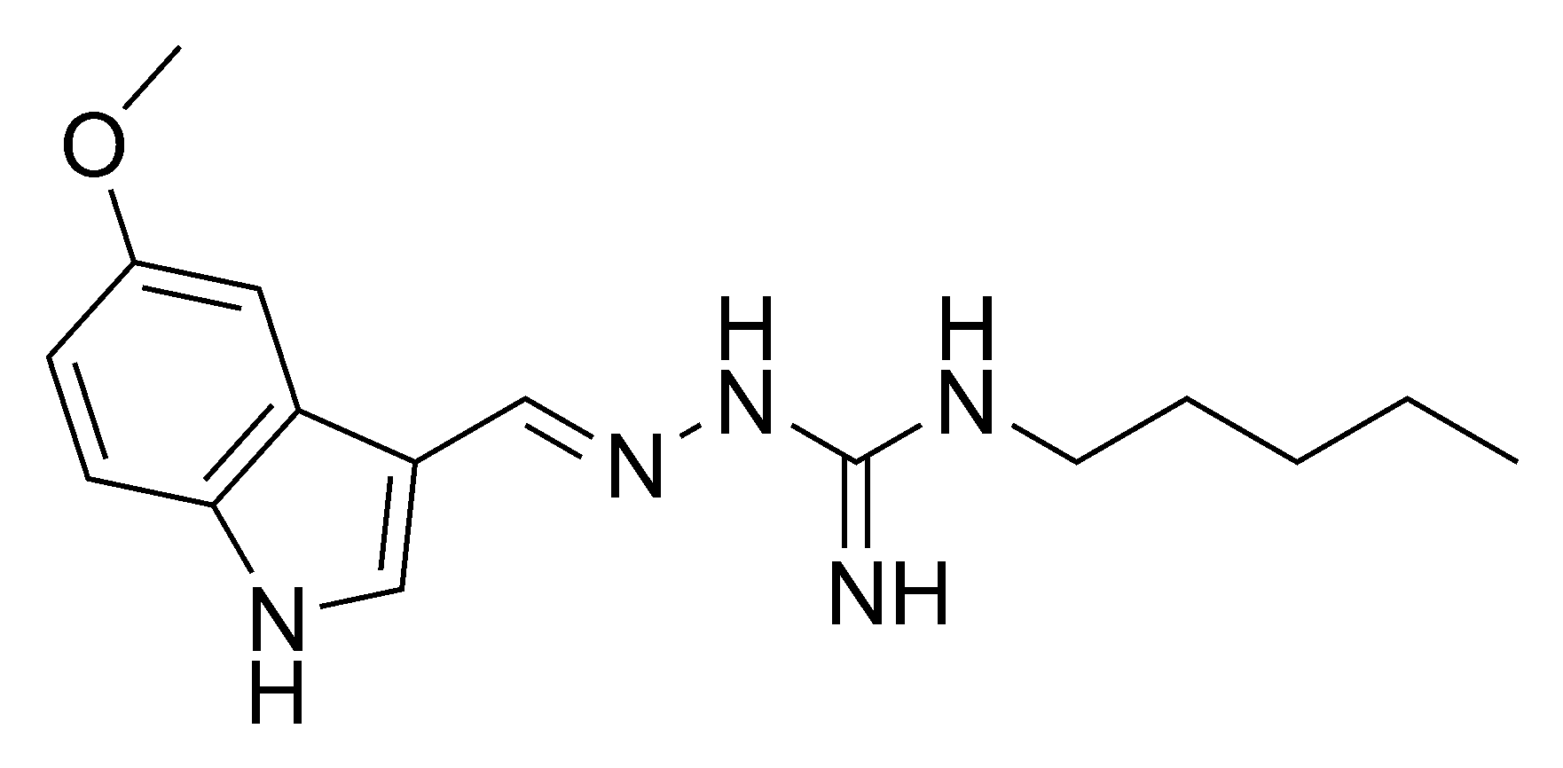 Chemical structure of tegaserod